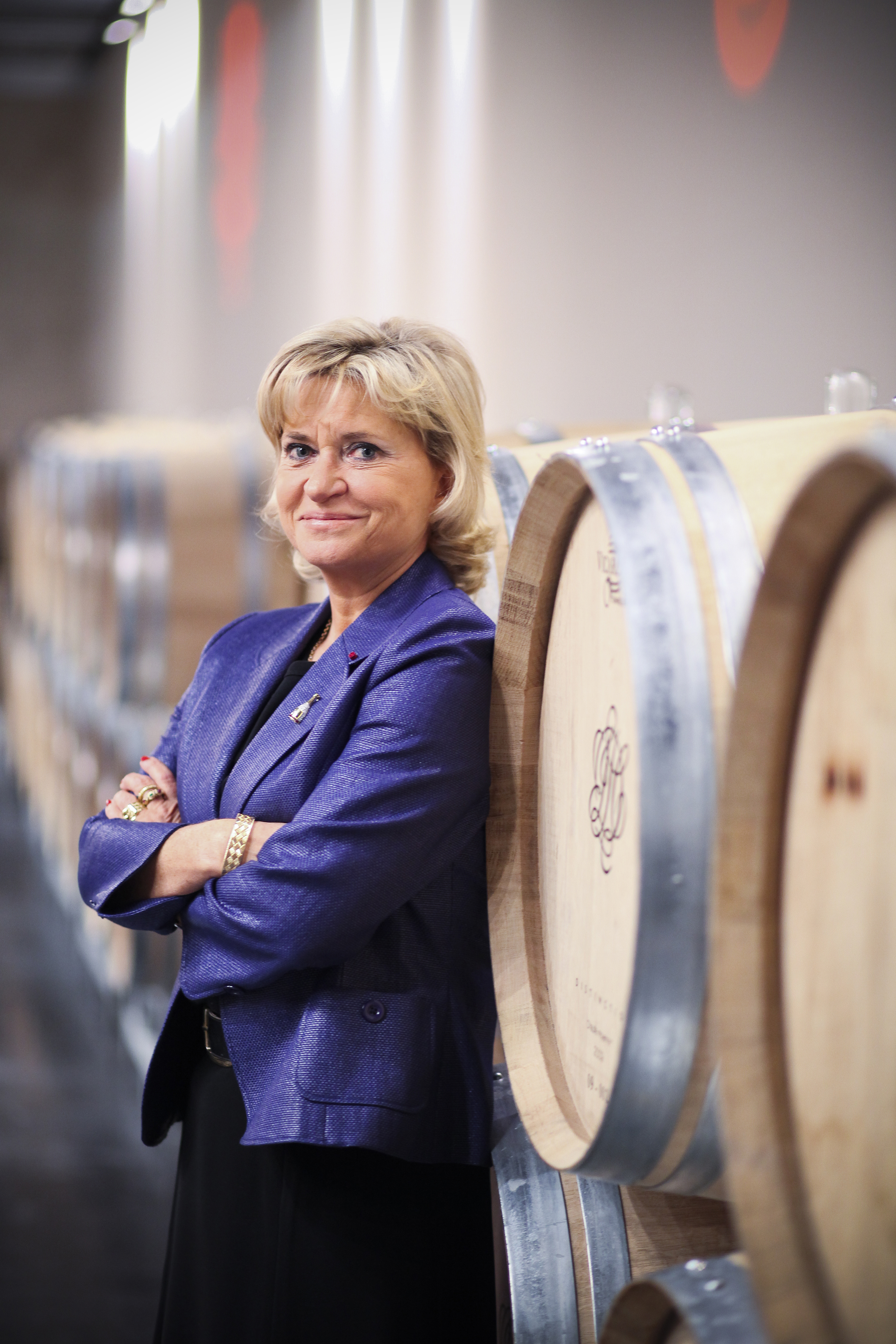 Carol Duval-Leroy